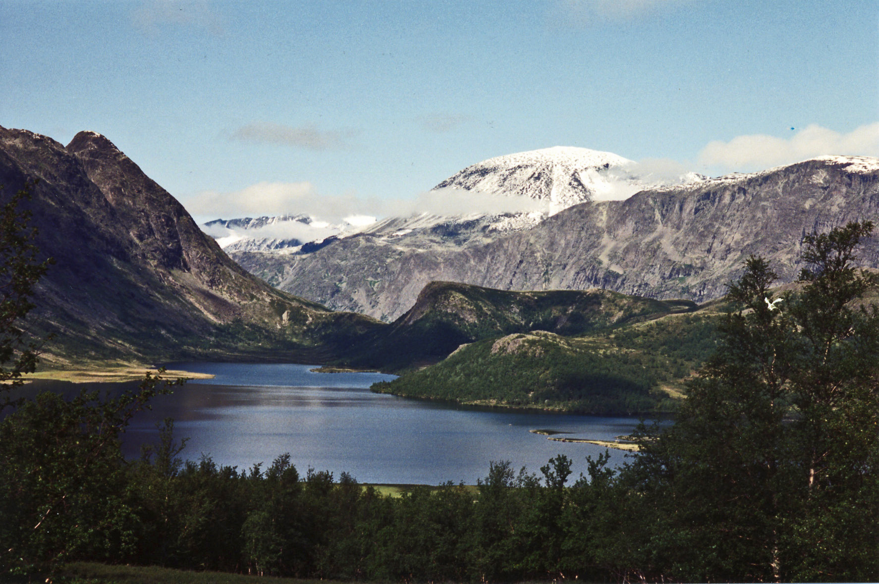 Lake along Valdresflya in Norway; Photography by Leif Knutsen